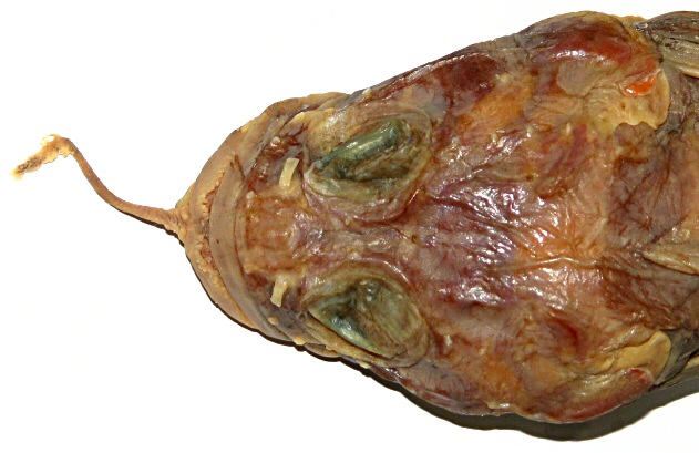 Histiodraco velifer. Head, dorsal view